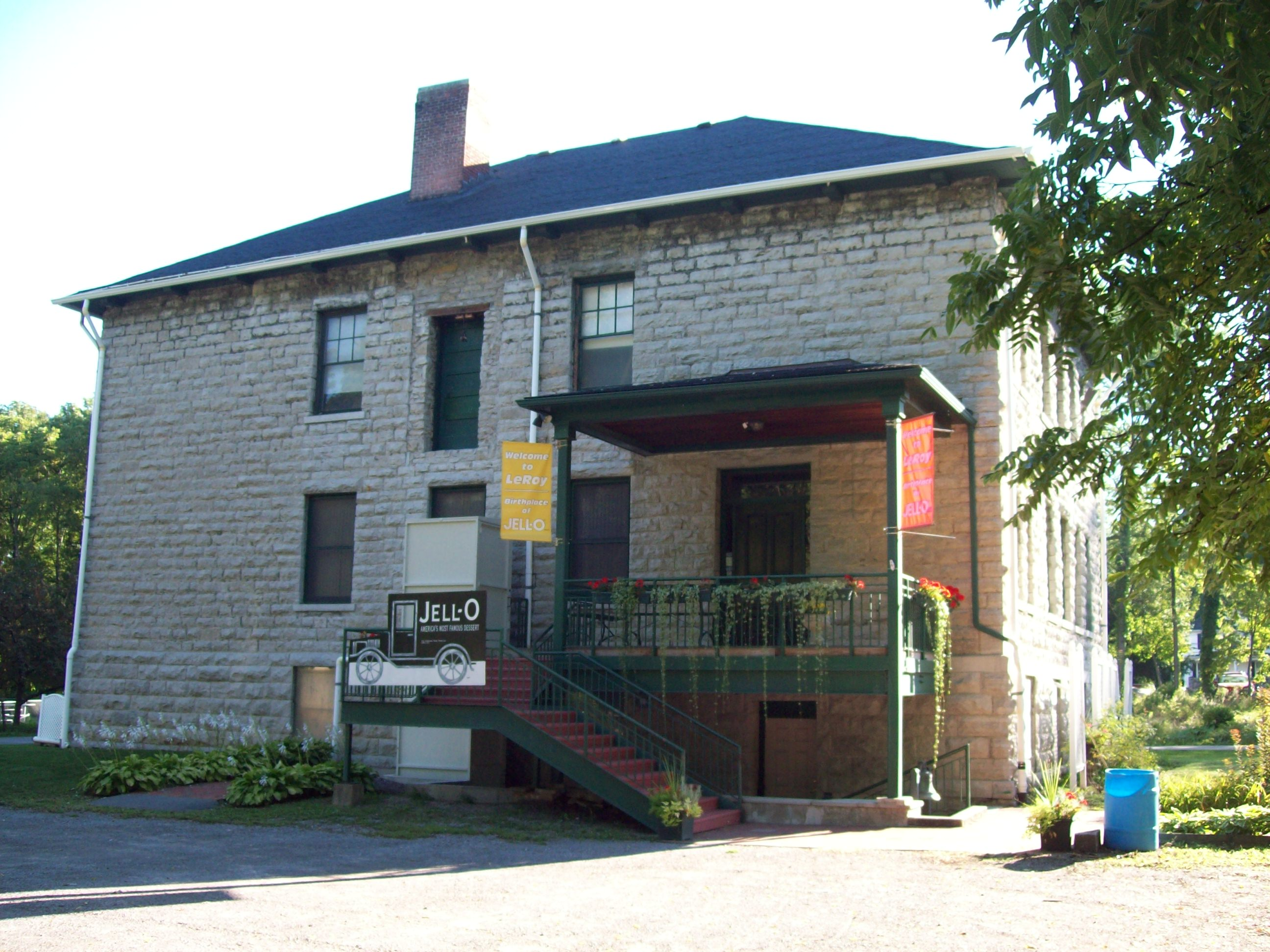 Jell-O Museum, Le Roy, NY, August 2010